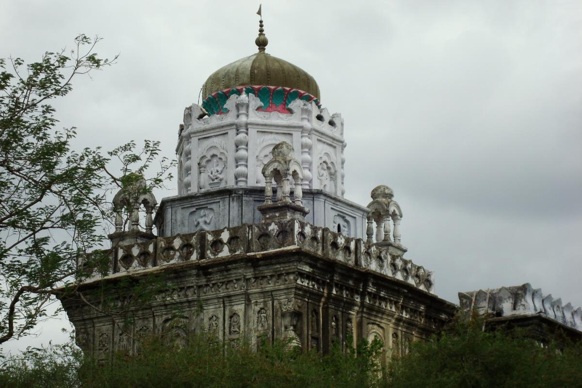 One of old temple of pulgaon. Clicked by me (abhijeet)